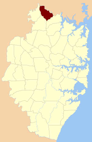 original location of the parish within Cumberland County, New South Wales (Sydney area)